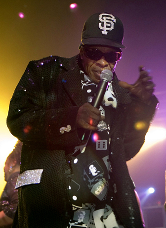 Sly and the Family Stone play the Opera House in Bournemouth. Mojo review.